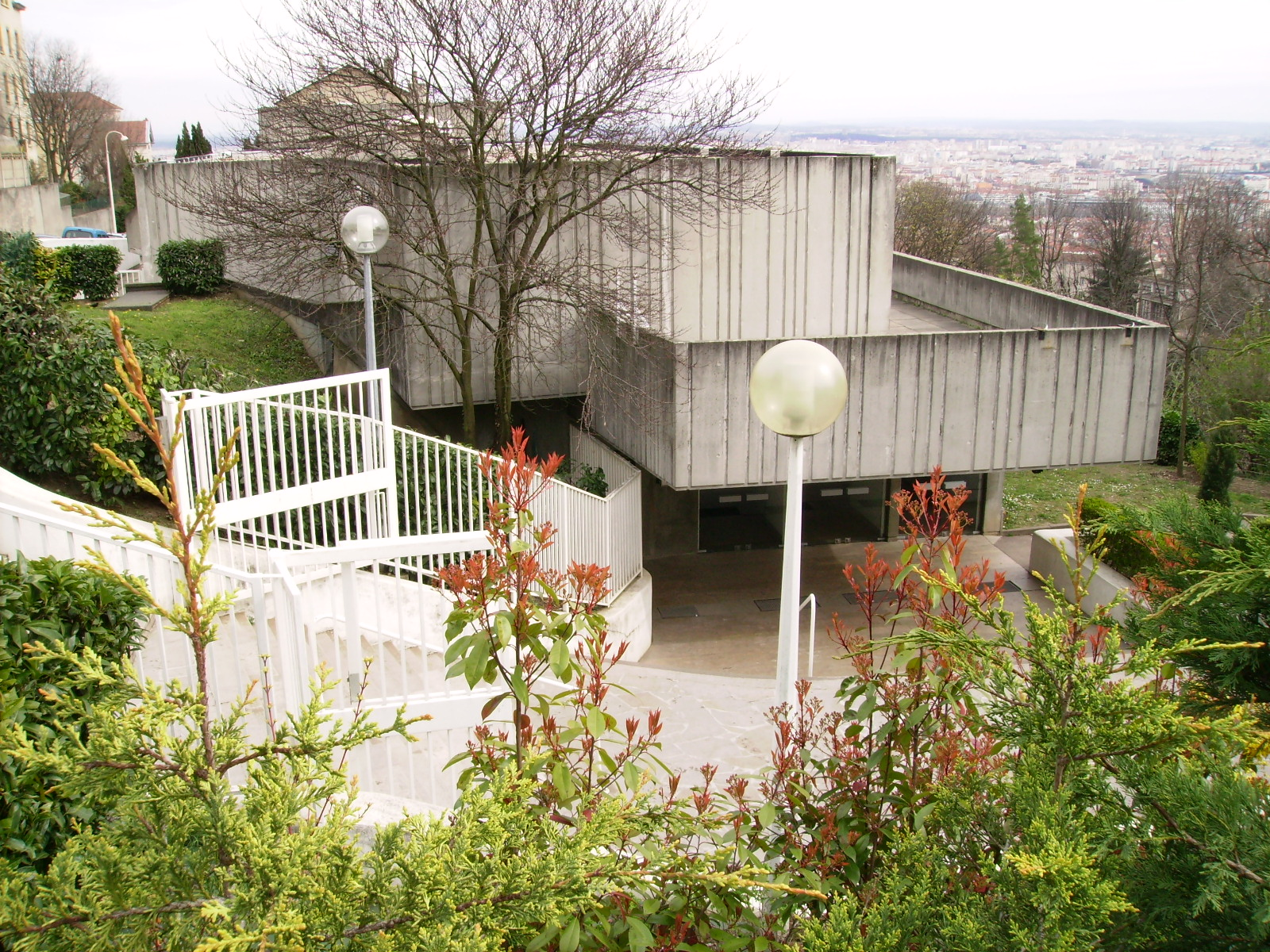 Entry of Gallo-Roman Museum of Lyon Fourvière